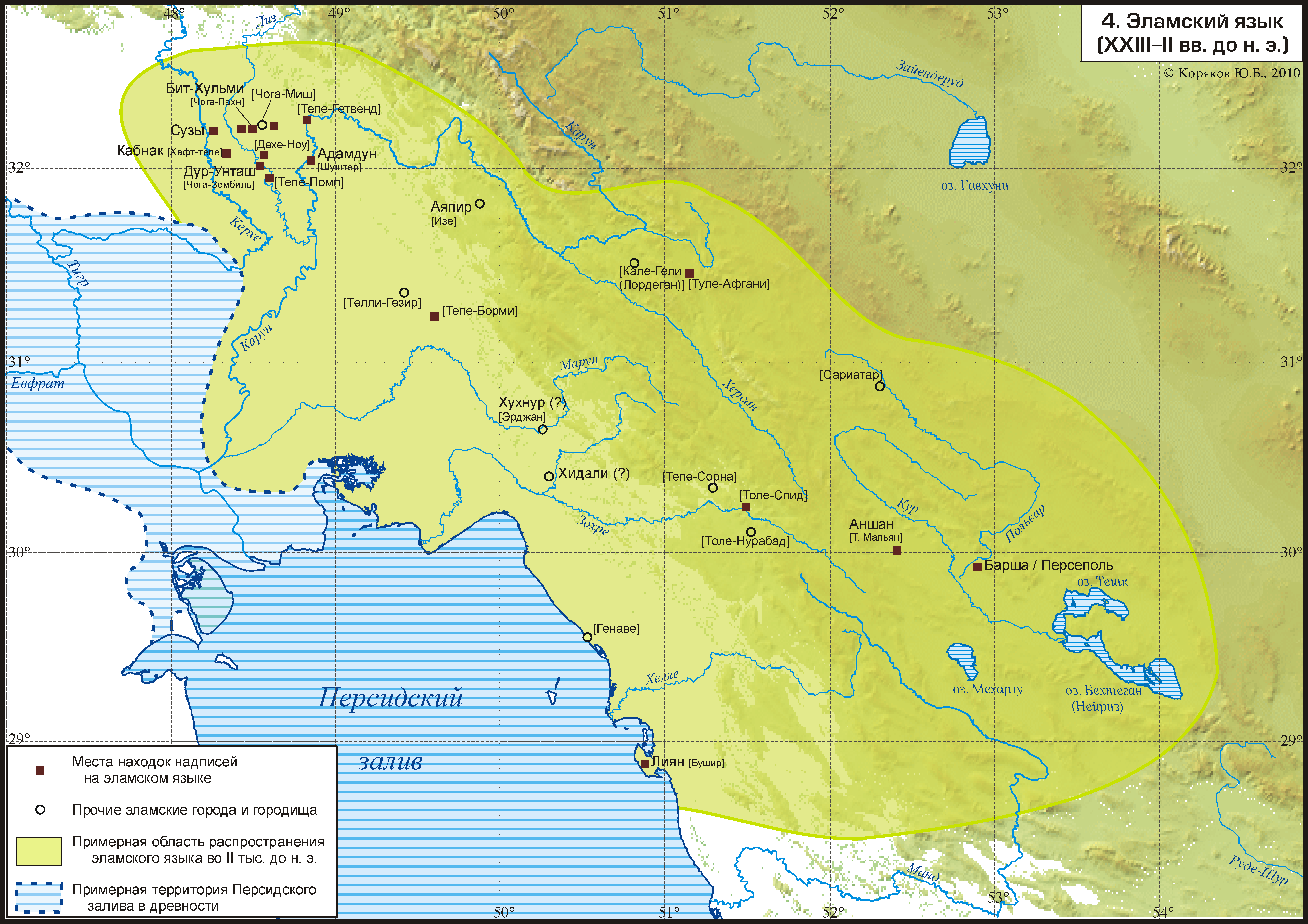 Map of Elamite language (in Russian). Based on the map in "Языки мира: Древние реликтовые языки Передней Азии / РАН. Институт языкознания. Под ред. Н.Н. Казанского, А.А. Кибрика, Ю.Б. Корякова. ― М.: Academia, 2010."